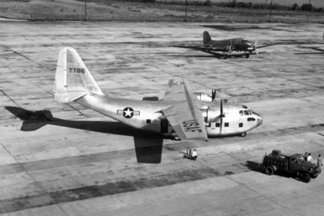 The U.S. Air Force Chase XC-123 Provider (s/n 47-786) was an XG-20 glider fitted with two 2,200 horsepower Pratt & Whitney R2800-23 engines. It made its first flight on 14 October 1949.